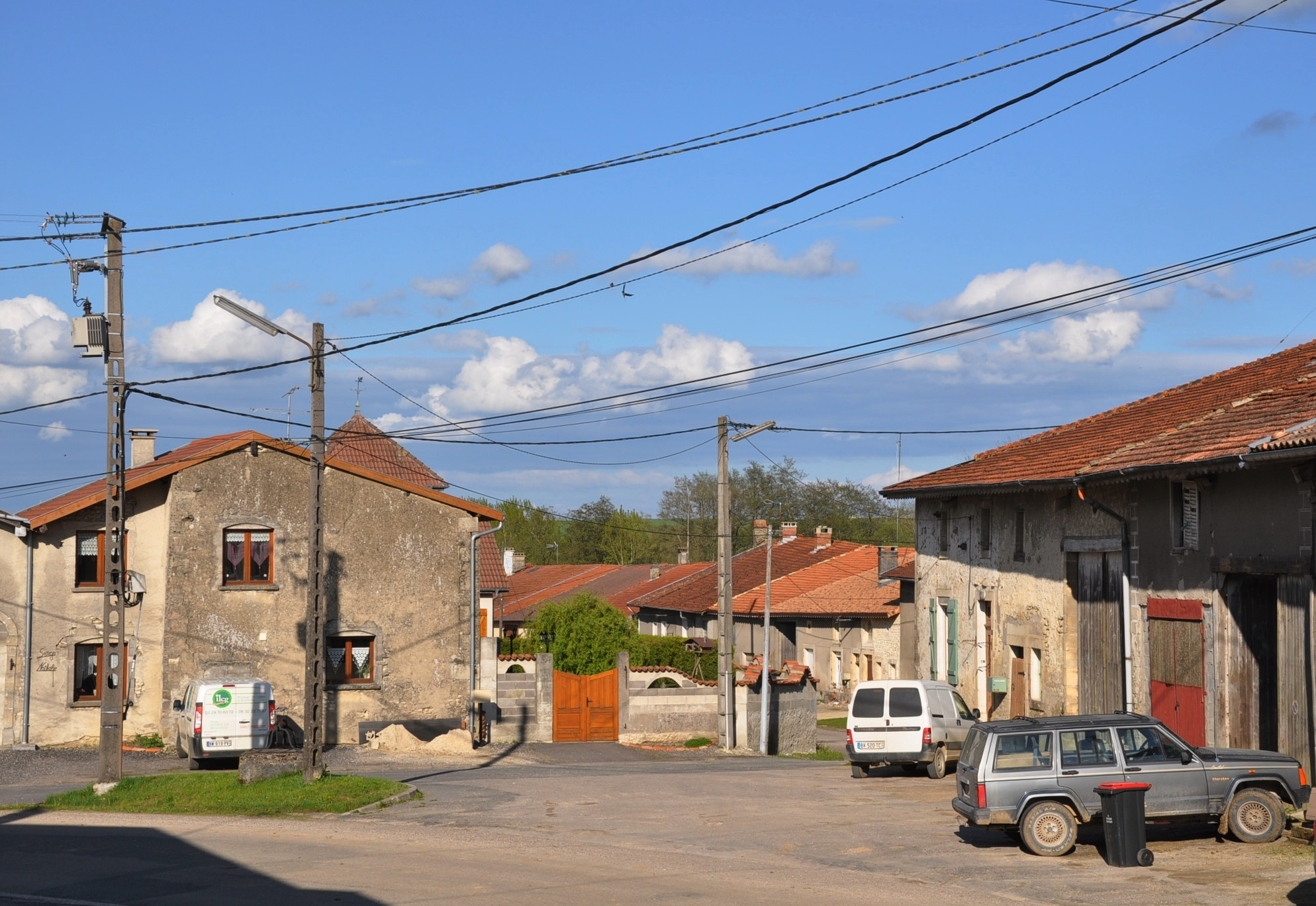 The Grand Rue (foreground) and the Rue des Maçons (background) in Autrécourt-sur-Aire (canton Seuil-d'Argonne, Meuse department, Lorraine region, France).